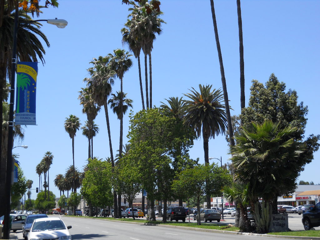 A section of Sherman Way in Reseda — located in the western San Fernando Valley, Los Angeles, California. • The palm allée of Mexican fan palms was planted along the new boulevard and Red Car line the 1910s.